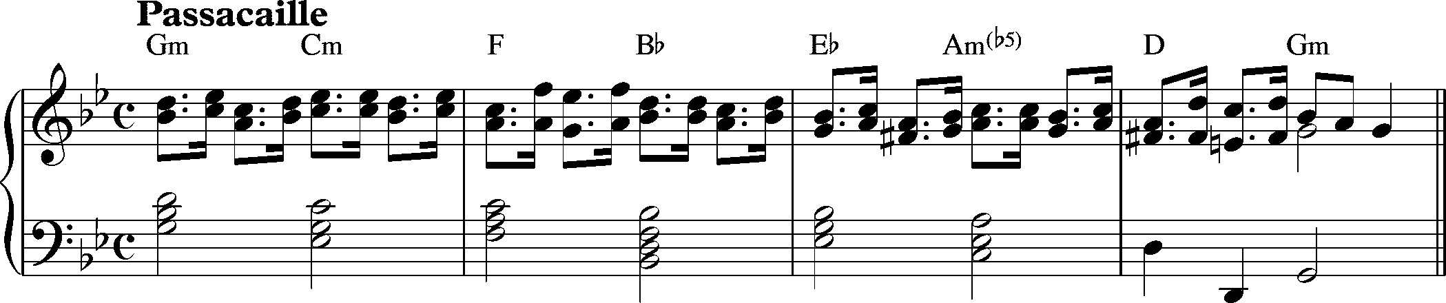 Handel Passacaille from Suite in G minor bars 1-4